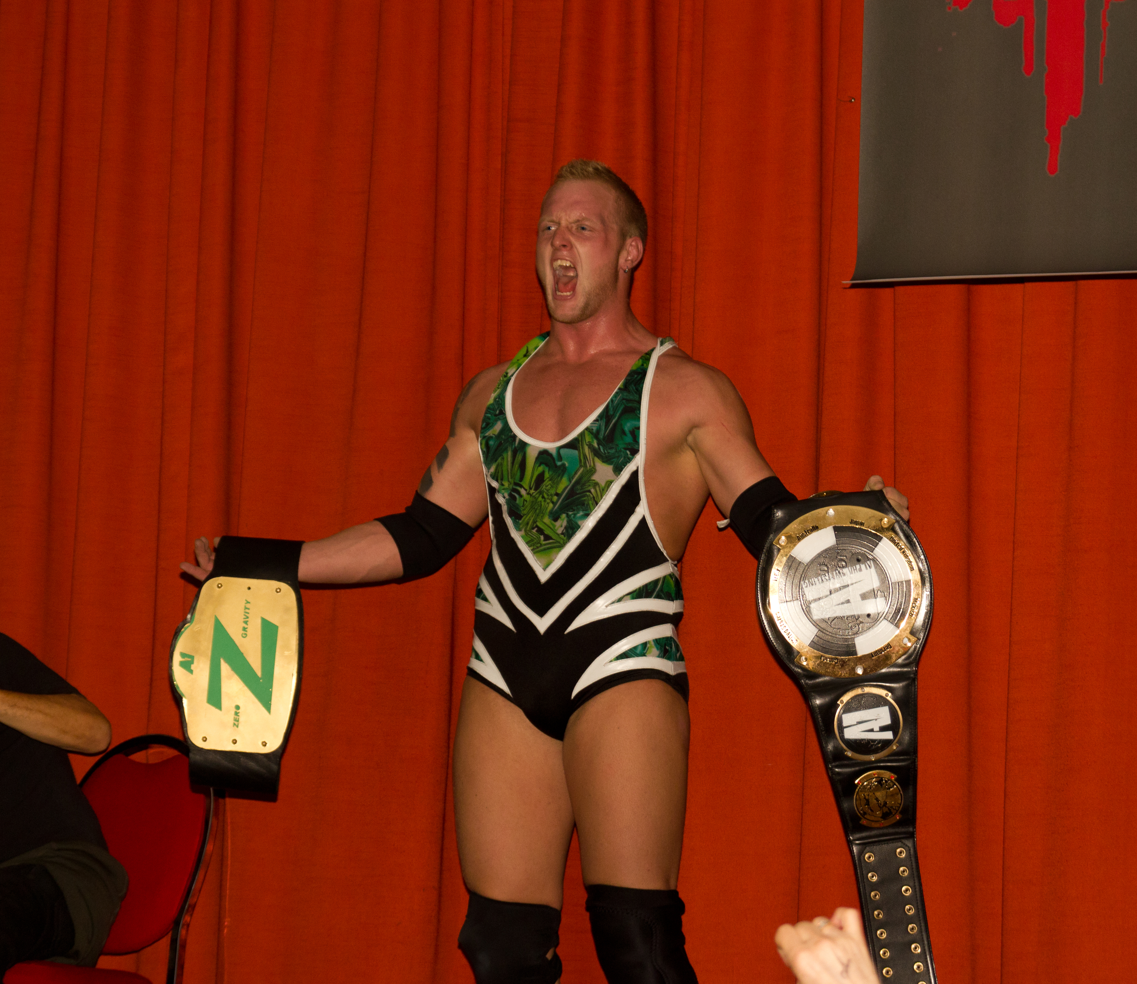 Josh Alexander with the two singles title belts for Alpha-1 wrestling: the Alpha Male championship in his left hand, and the Zero Gravity championship in his right.